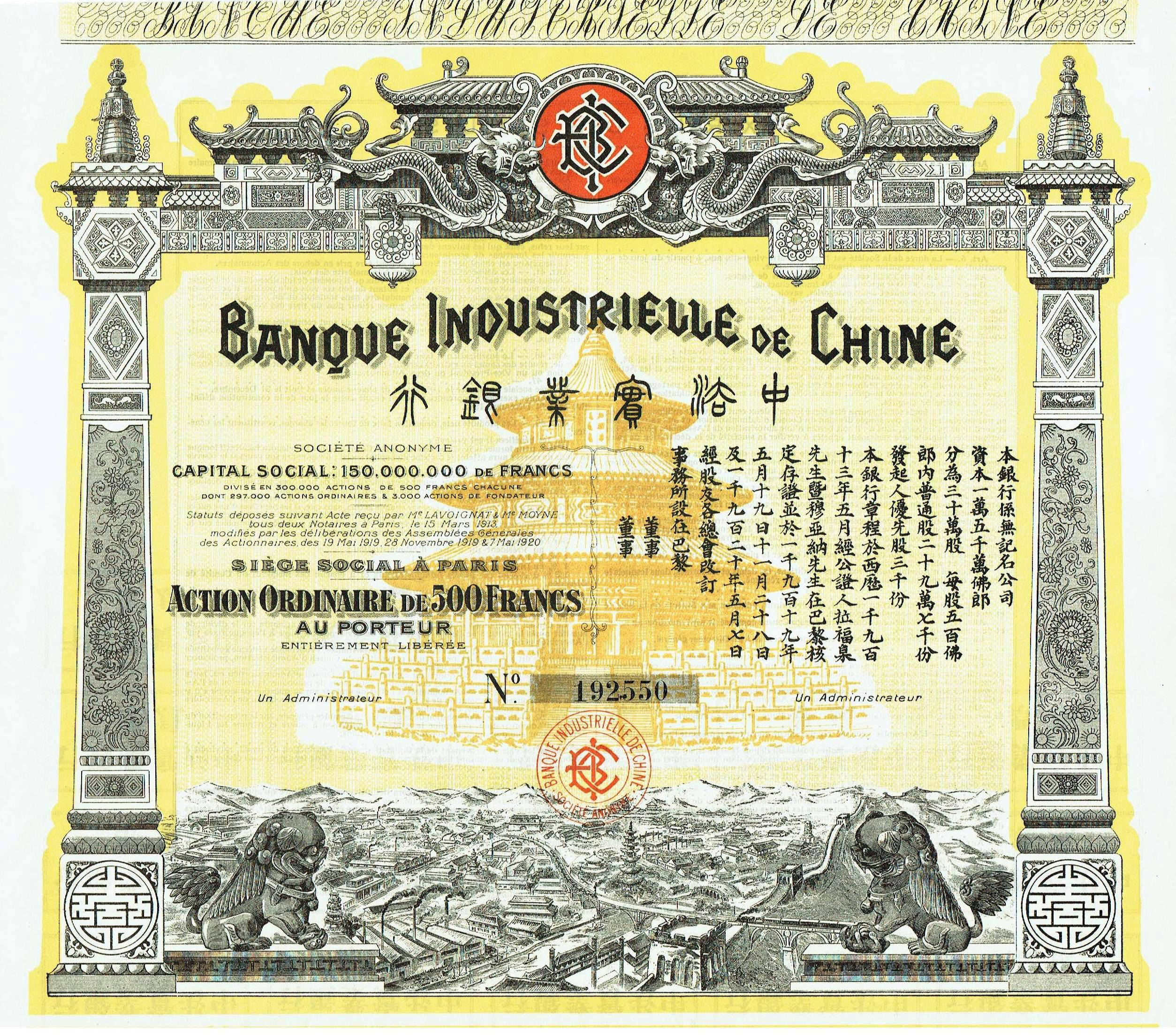 Share of the Banque Industrielle de Chine, issued 7. May 1920